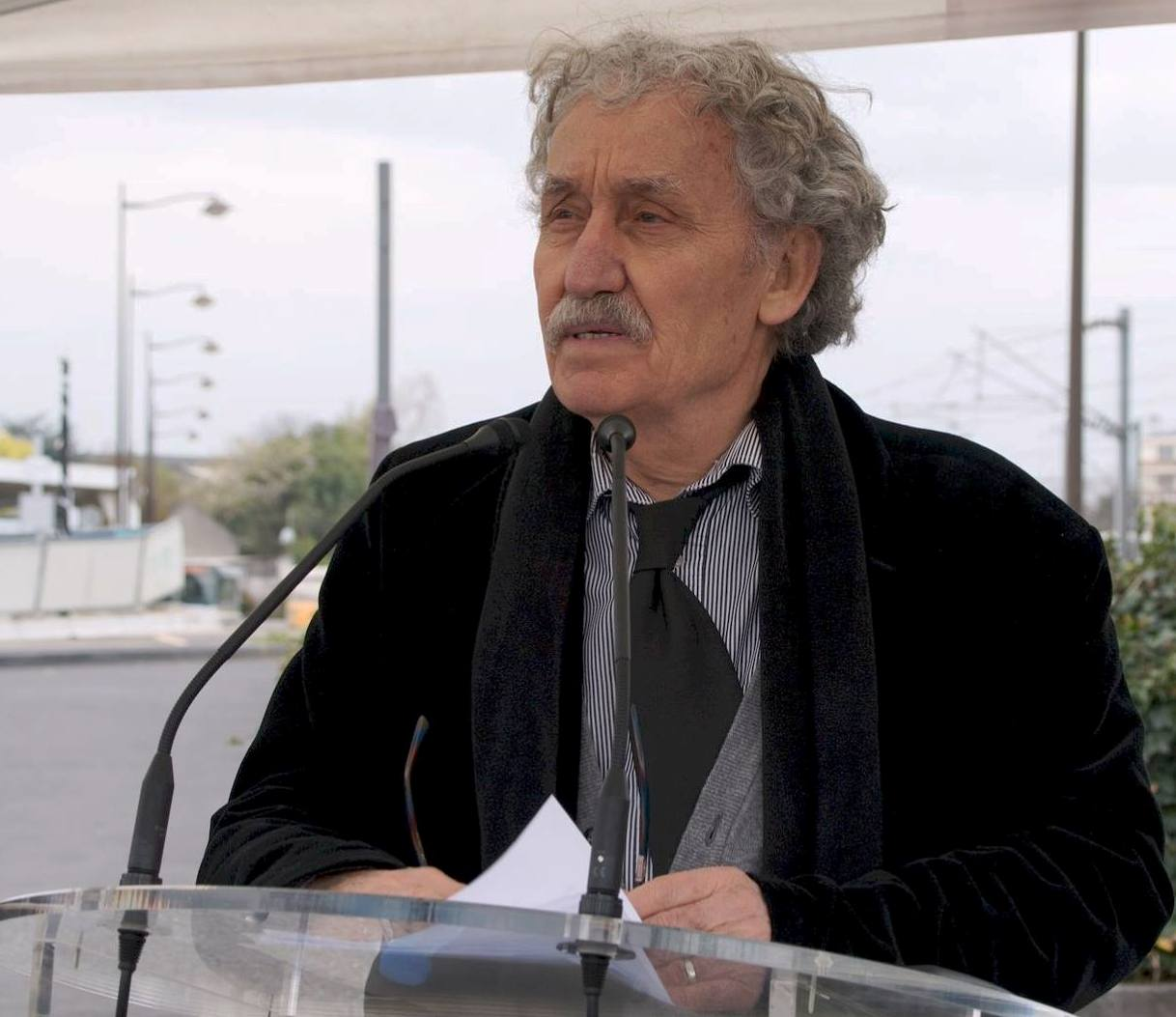 2016.jpg